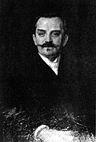 Edmond Perrier portrait